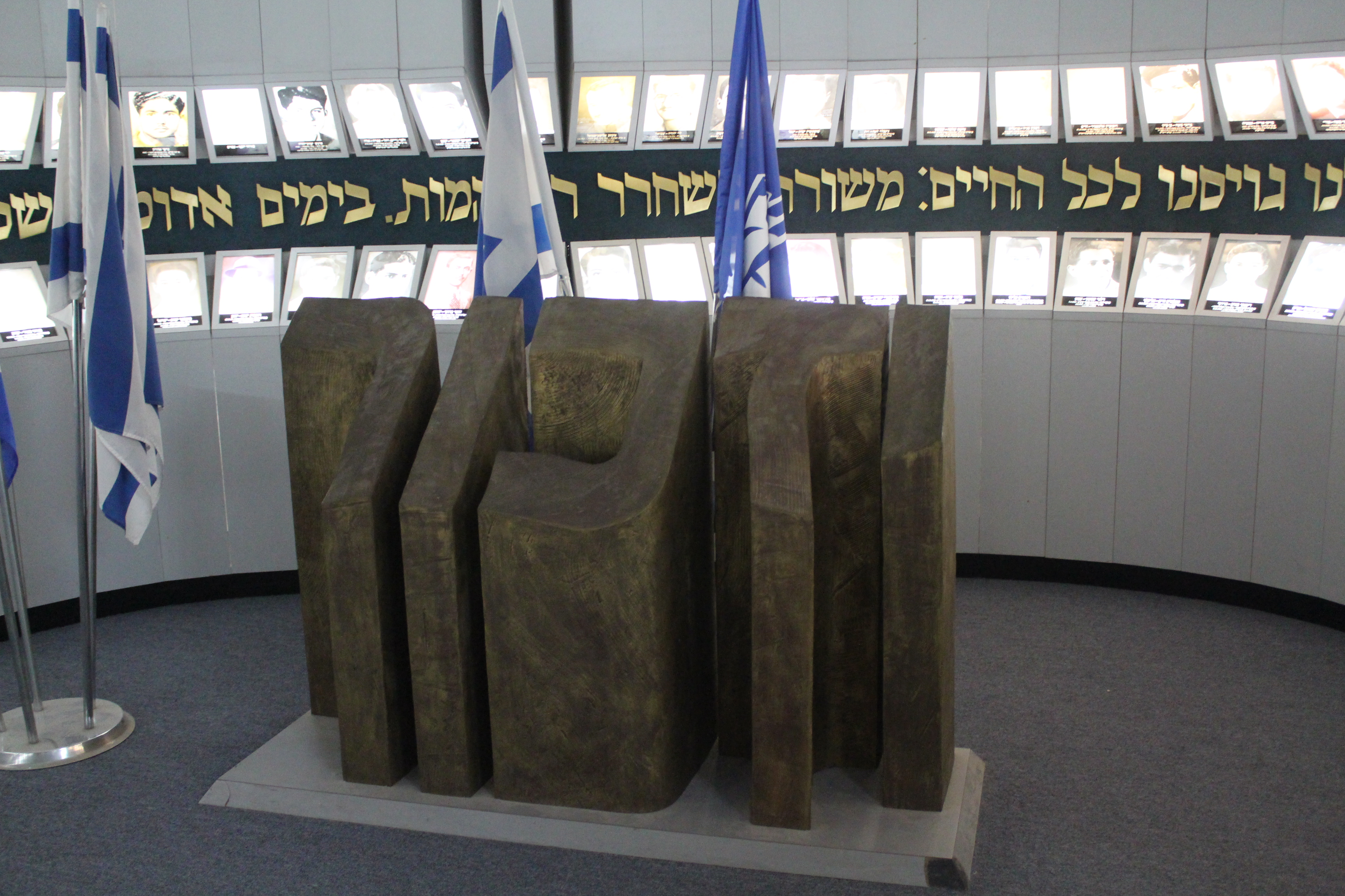 The Lehi Museum, also known as Beit Yair, is placed in the house where the Lehi commander, Avraham Stern (Yair) was assassinated. Including the room where Abraham Stern, Lehi commander, was murdered by a British policeman on 12/2/1942. The site's ID in Wiki Loves Monuments photographic competition is 3-5000-037